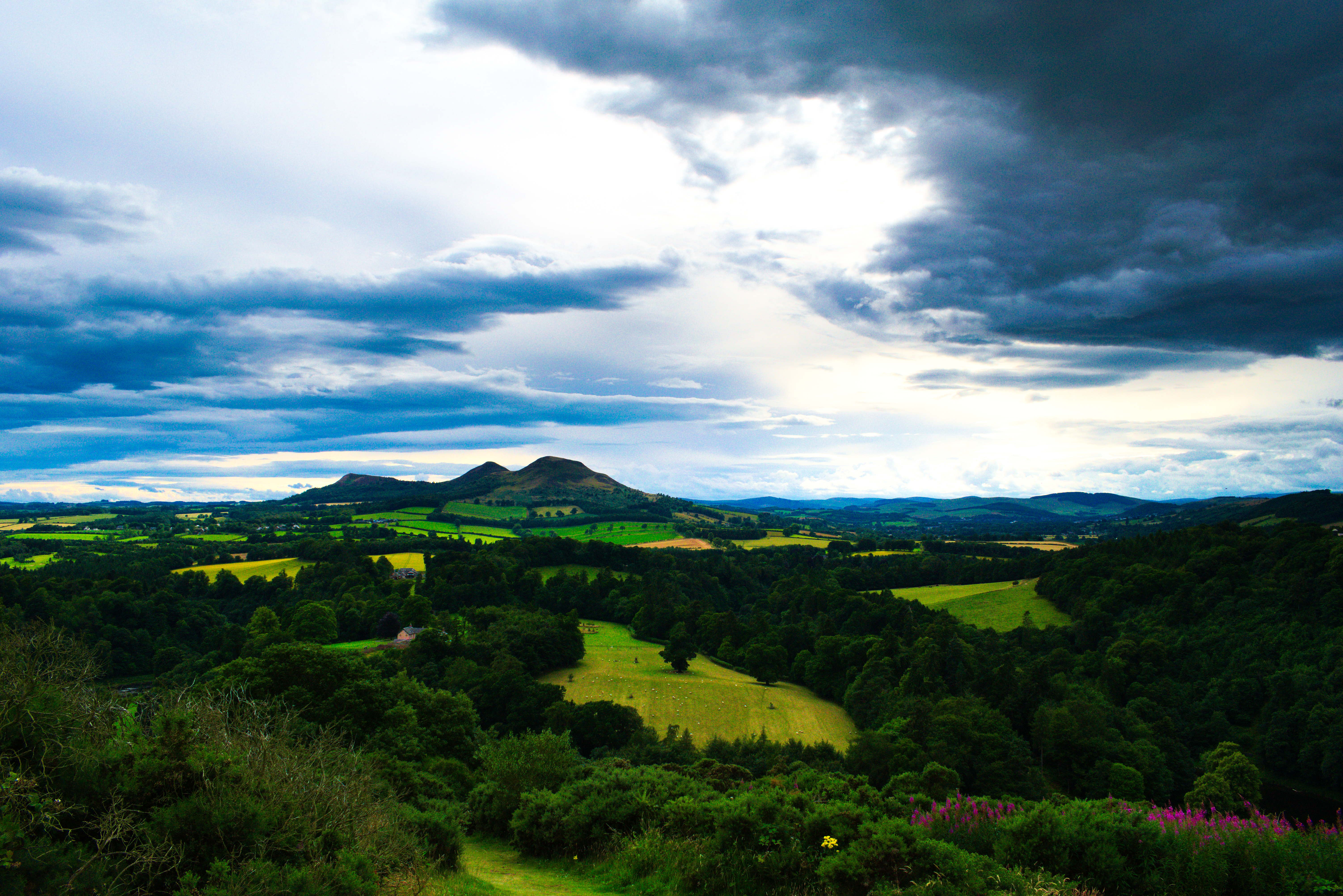 Scot's view, Scotland, UK